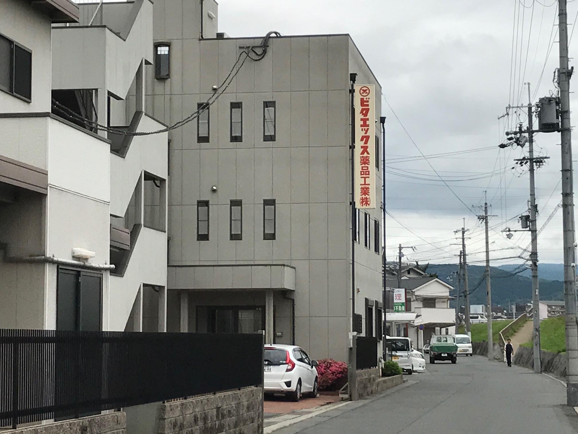 Vita-X Pharmaceutical Industry Co., Ltd. Exterior